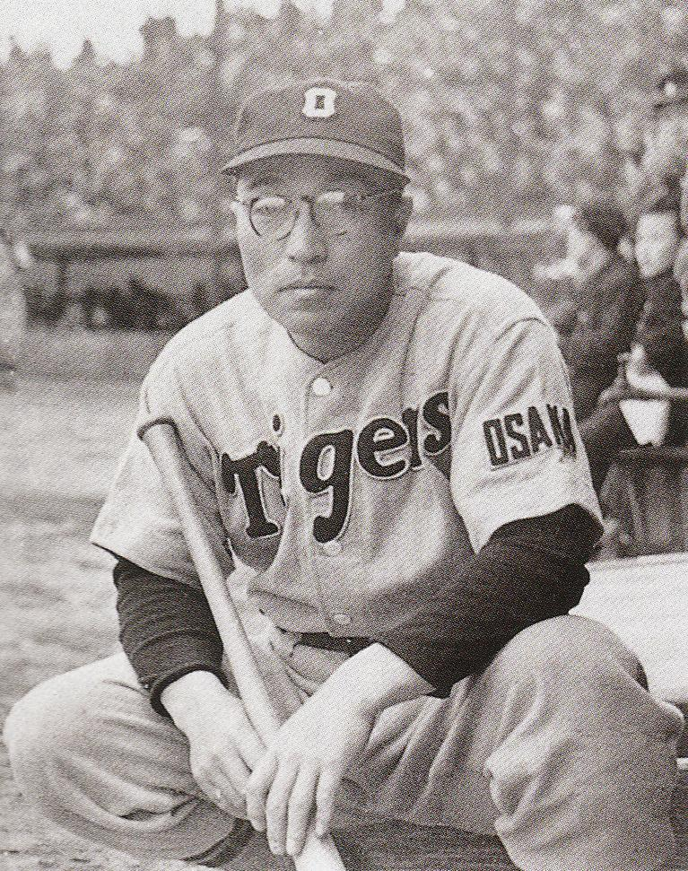 A professional baseball manager from Japan, Kenjiro Matsuki.